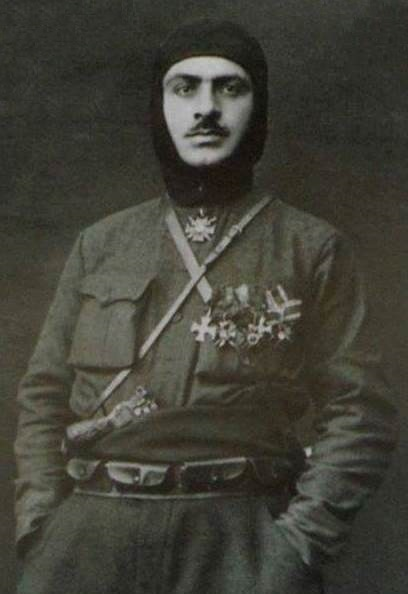 Garegin Nzhdeh